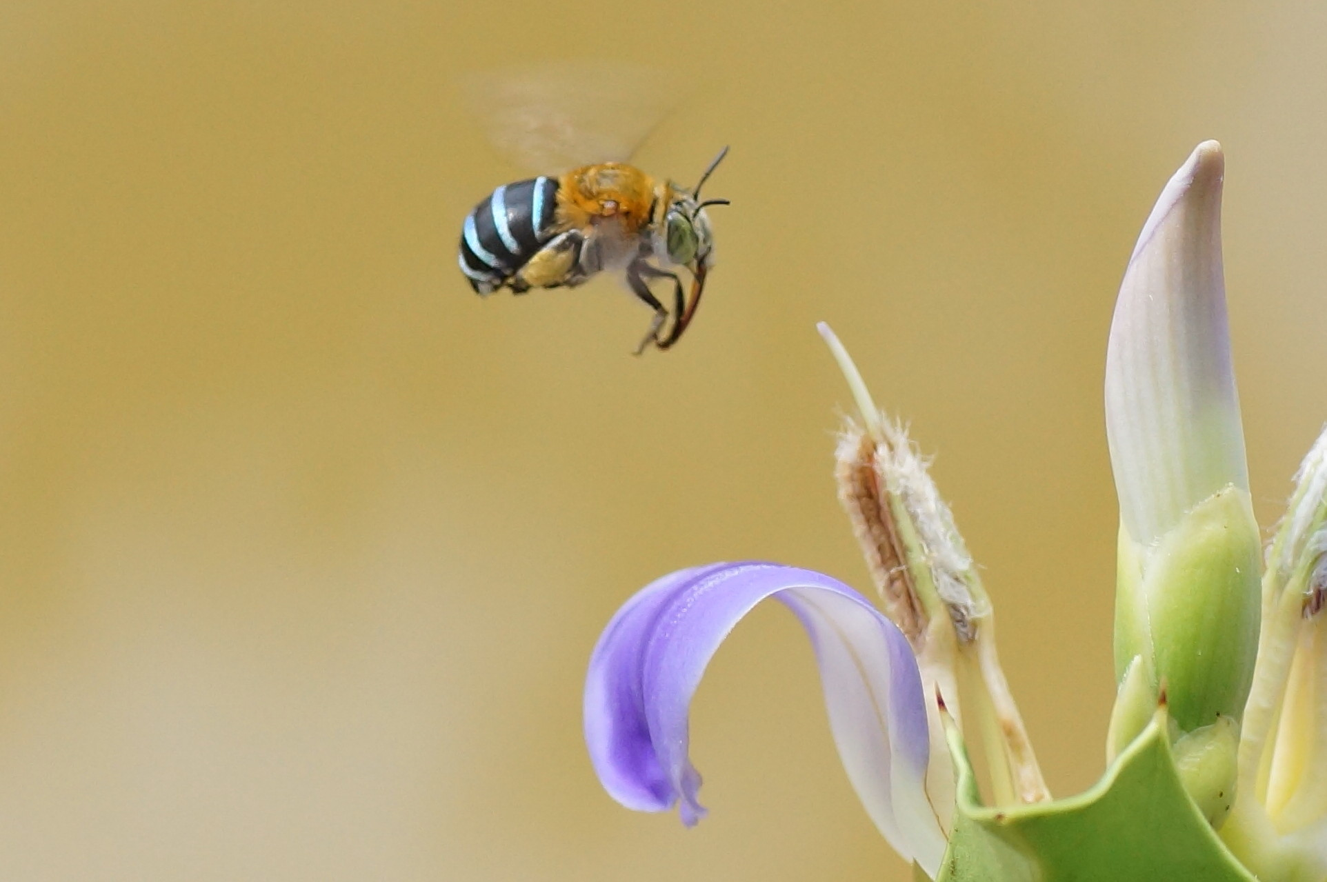 Amegilla cingulata (or blue banded bees , a type of digger bee), , approaching an Acanthus ilicifolius flower